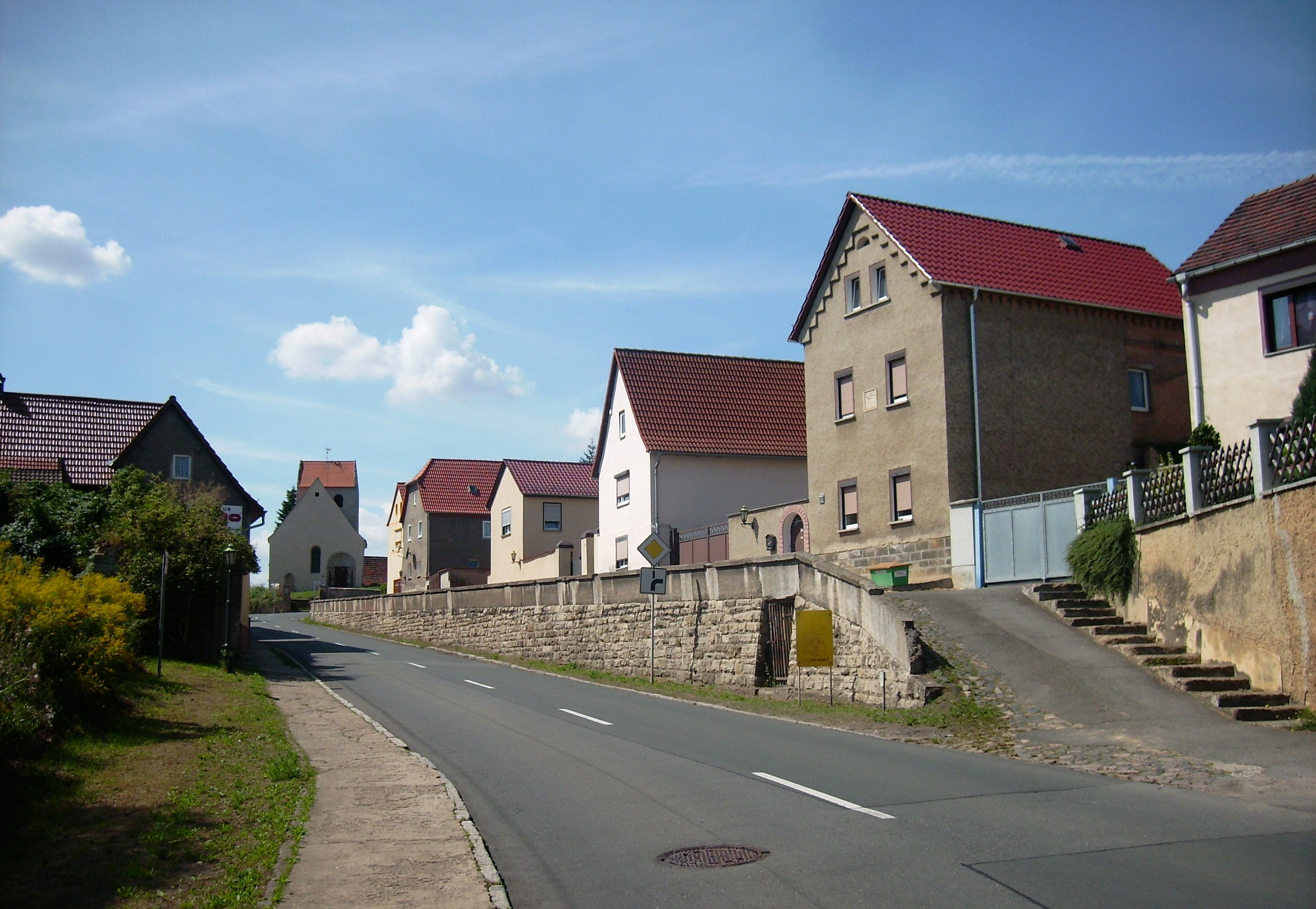 Main street of the village of Webau (Hohenmölsen, district of Burgenlandkreis, Saxony-Anhalt) with church in the background